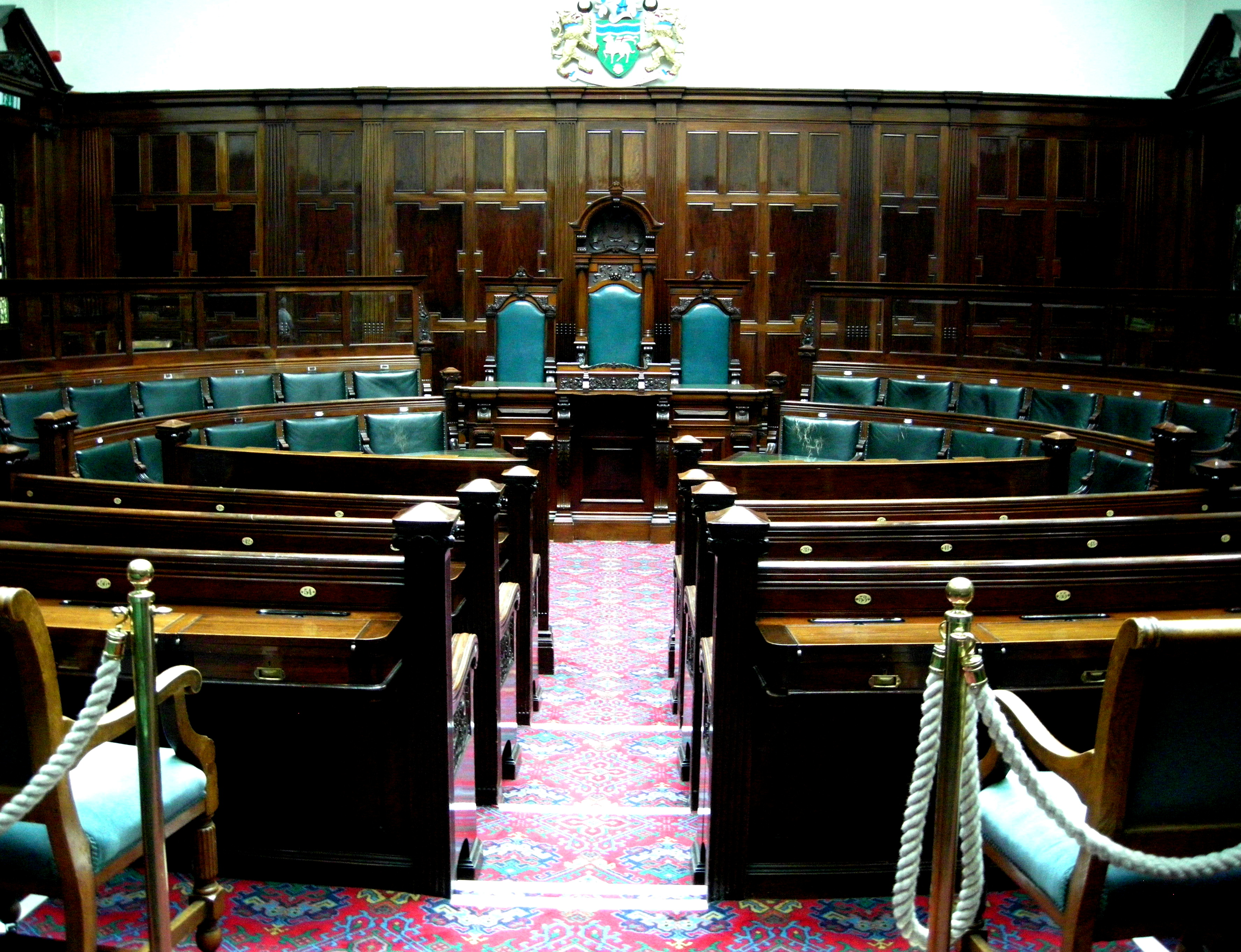 Town Hall, Halifax, West Yorkshire, England. 53 43'28"N. 1 51'38"W.